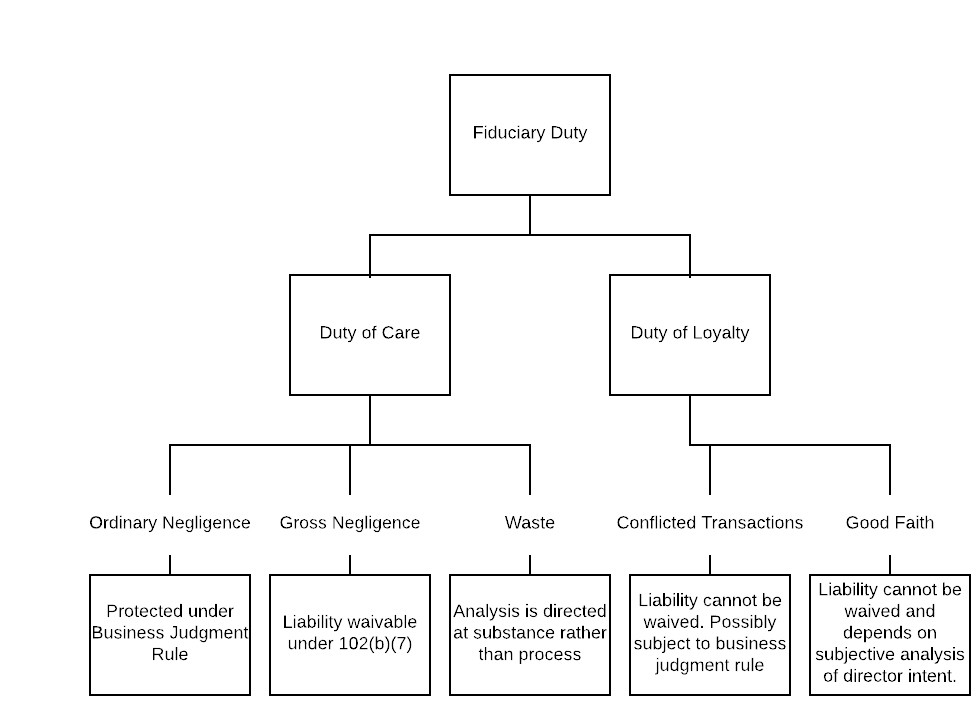 Diagram illustrating the fiduciary duty The reference to the waivability of gross negligence is a specific reference to the Law of Delaware. Delaware courts have unequivocally stated that section 102(b)(7) of the Delaware Code protects directors against personal liability arising from gross negligence, but not against liability arising from a lack of good faith.